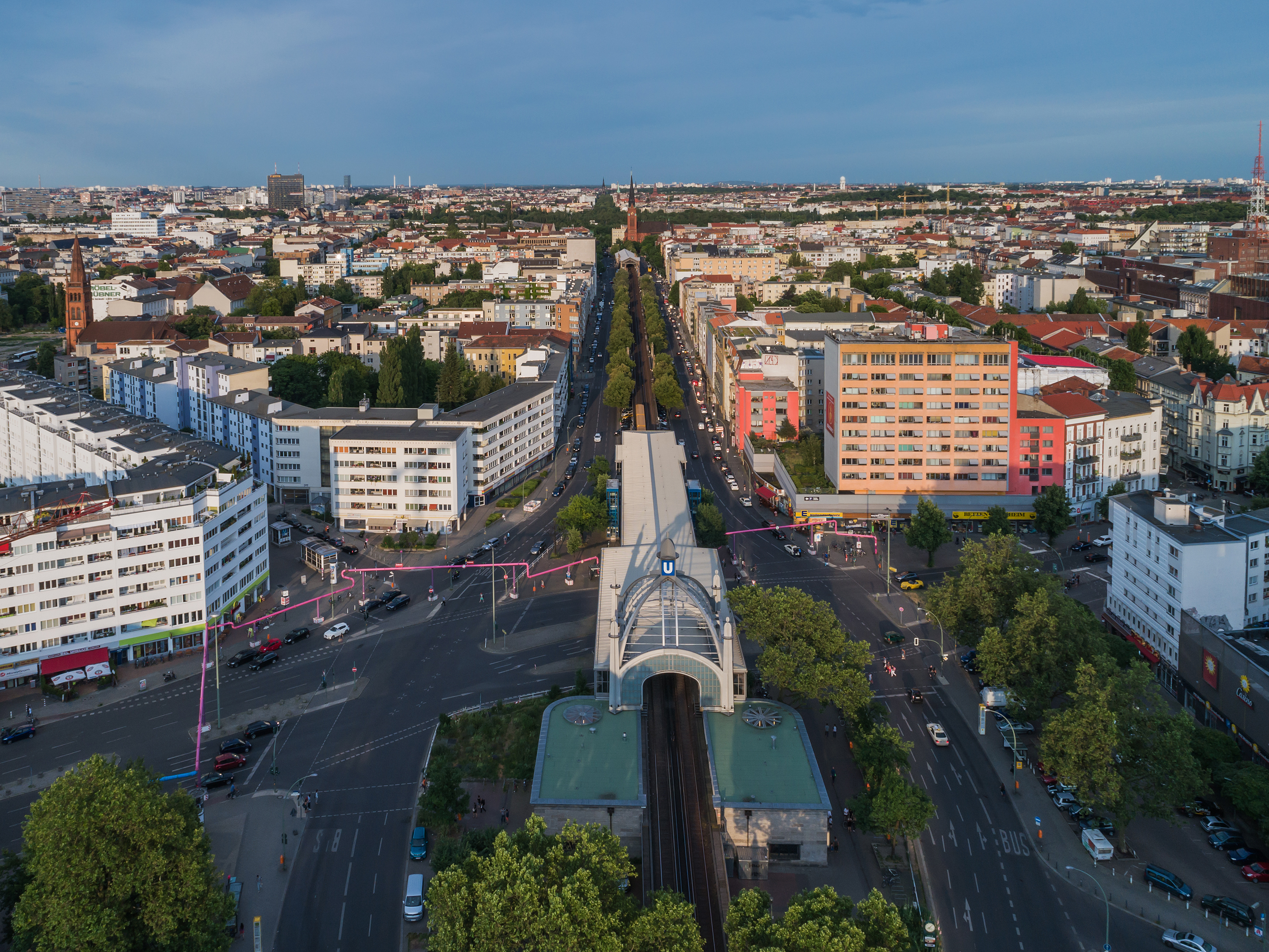 Aerial photo of Nollendorfplatz in Berlin (Germany)